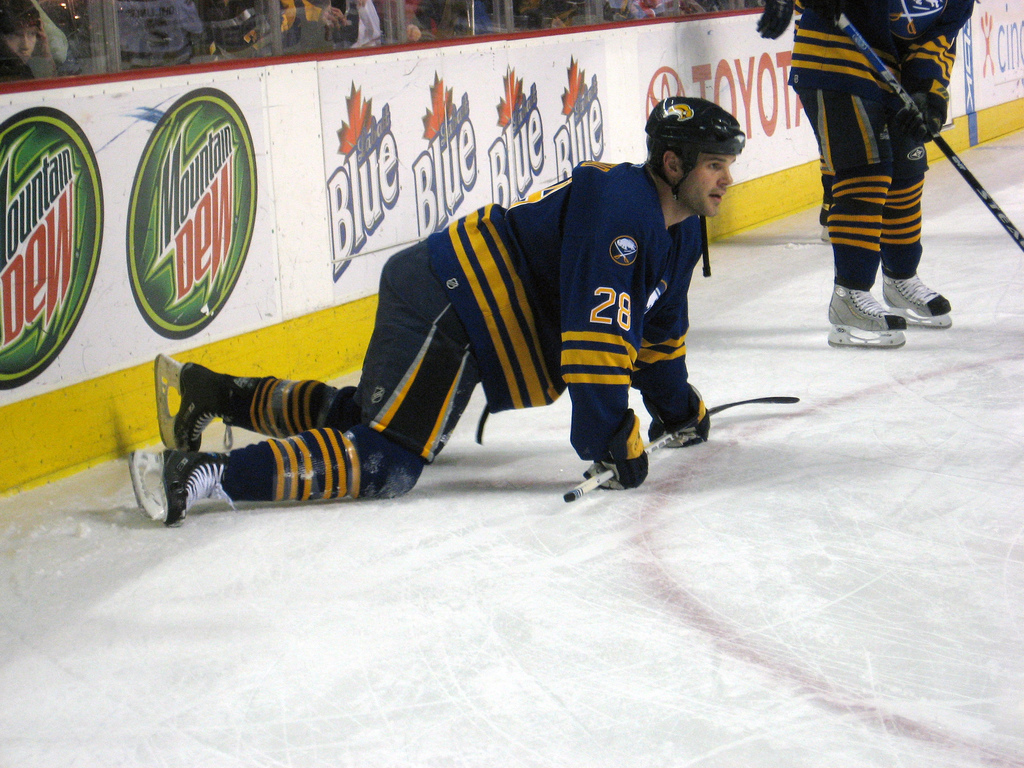 Paul Gaustad, ice hockey center of the Buffalo Sabres, stretching, Jan. 2007